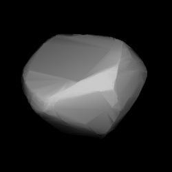 3D convex shape model of 394 Arduina, computed using light curve inversion techniques. J. Hanuš, J. Ďurech, M. Brož, B. D. Warner (June 2011). "A study of asteroid pole-latitude distribution based on an extended set of shape models derived by the lightcurve inversion method". Astronomy and Astrophysics 530: A134. ISSN 0004-6361. arXiv